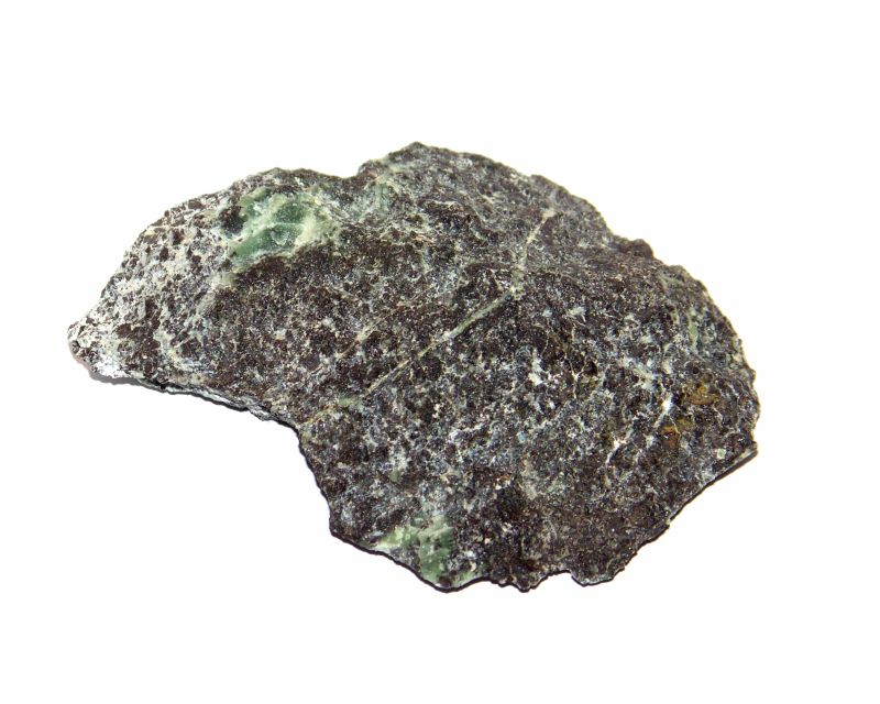 Chromite